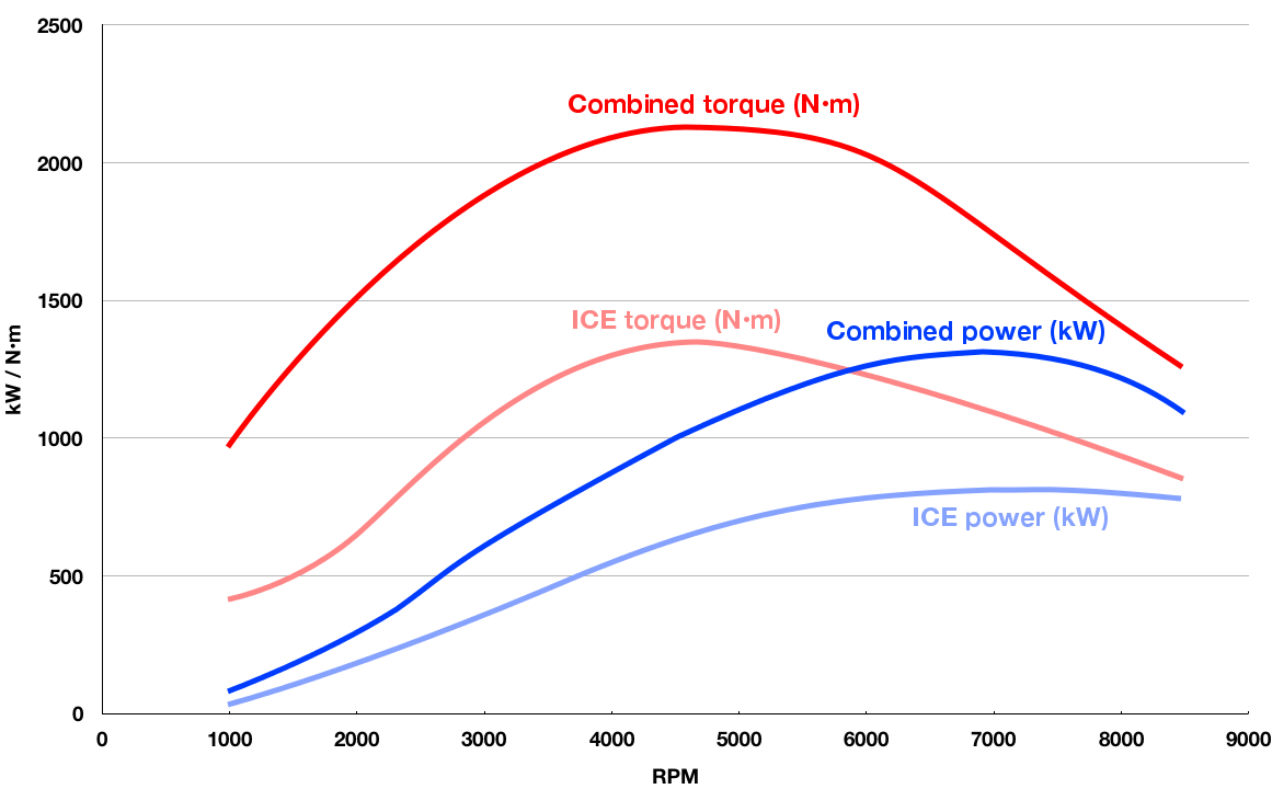 Power diagram of the Regera's engine based on information from Koenigsegg ( Made with GIMP.